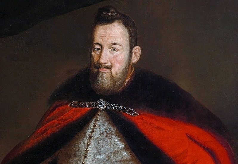 Jerzy Ossoliński